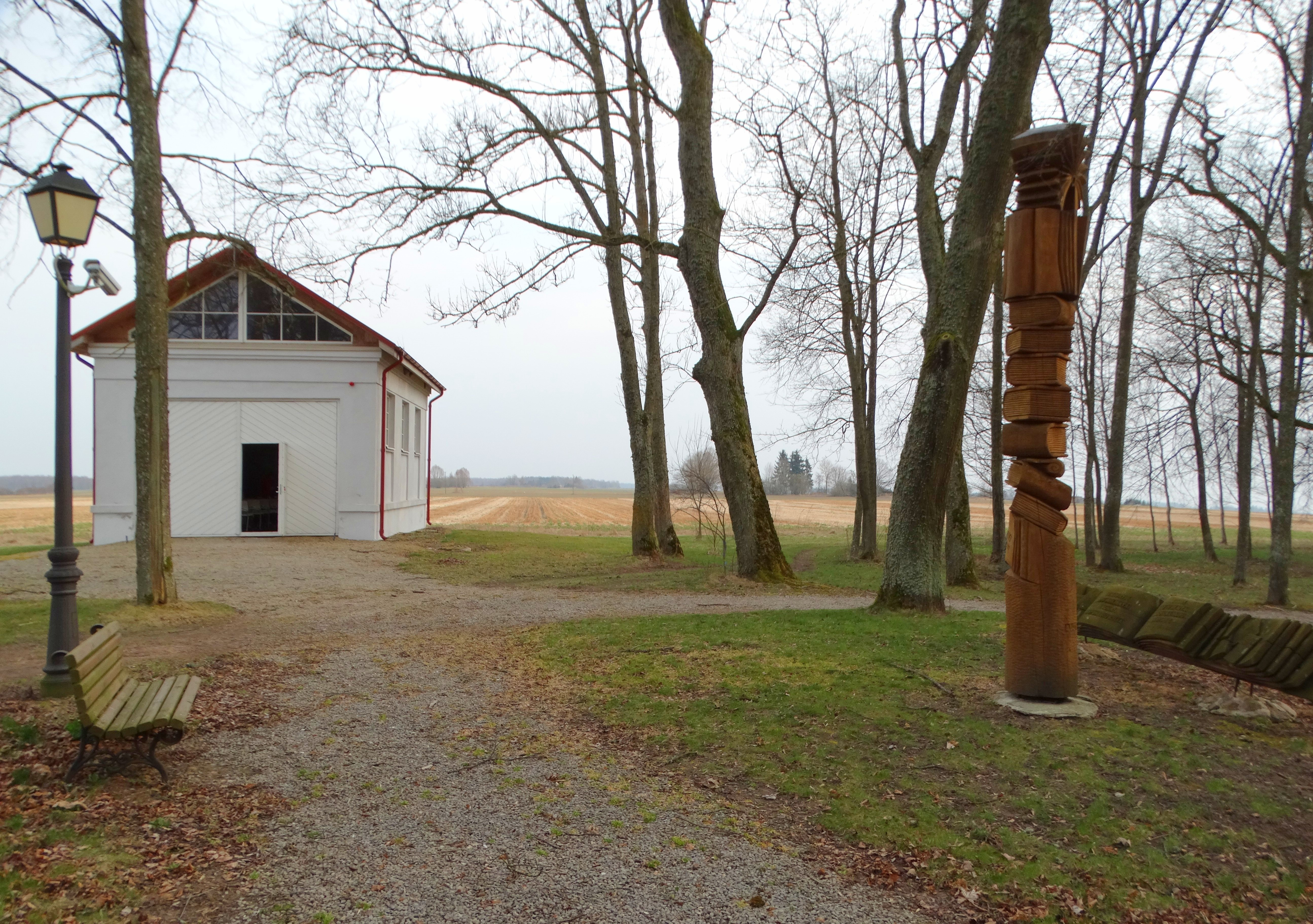 Bistrampolis, chapel, Panevėžys District, Lithuania